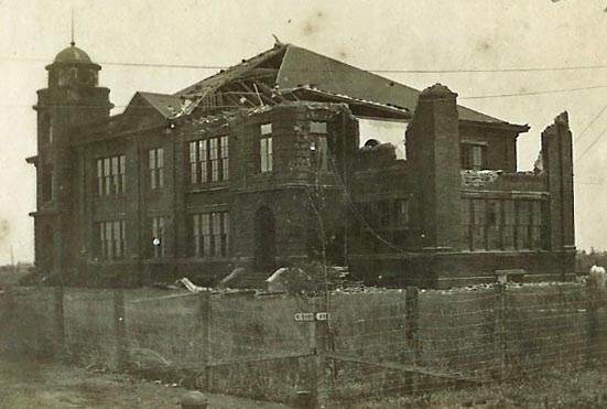 Damage sustained to Jeff Davis High School after the 1909 Velasco hurricane.